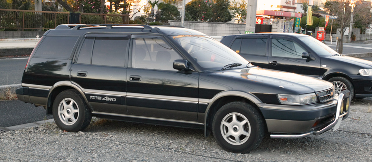 Toyota Sprinter Carib